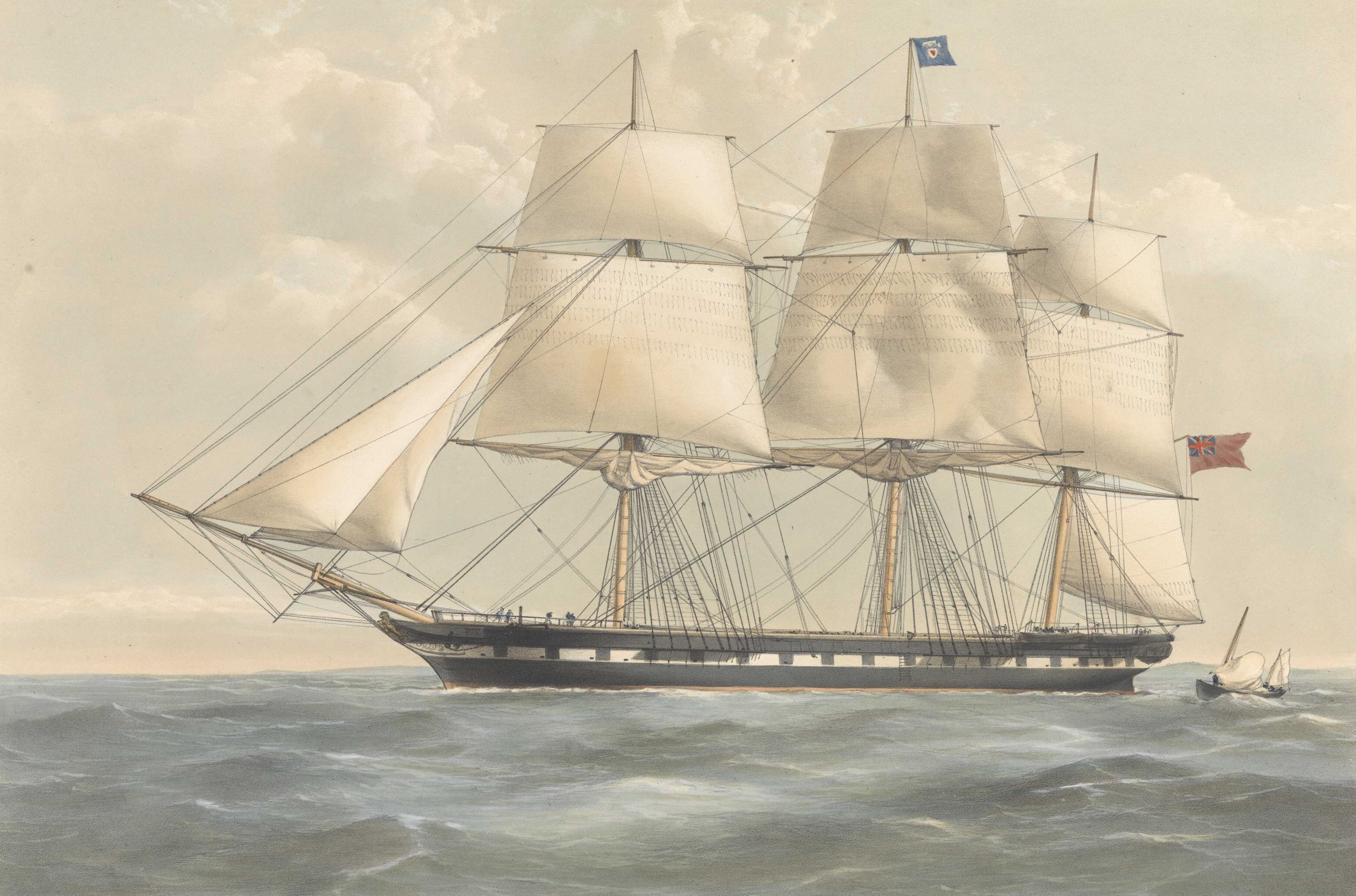 The Dunbar 1321 Tons Hand-coloured lithograph inscribed: The Dunbar, 1321 tons, To Duncan Dunbar Esqre Owner, Capt J. Green and the Officers of the Ship, this print is most respectfully dedicated by their obedient servant Wm Foster". The Dunbar was considered the finest ship in Duncan Dunbar's fleet. Great attention was paid in her construction to strength and to the comfort of her passengers. Her tragic wreck in 1857 off Sydney, when she was under the command of captain Green, seems to have been the result of a navigatinal error, but the cause was uncertain as there was only one survivor. (Basil Lubbock, The Blackwall Frigates p.202-211).